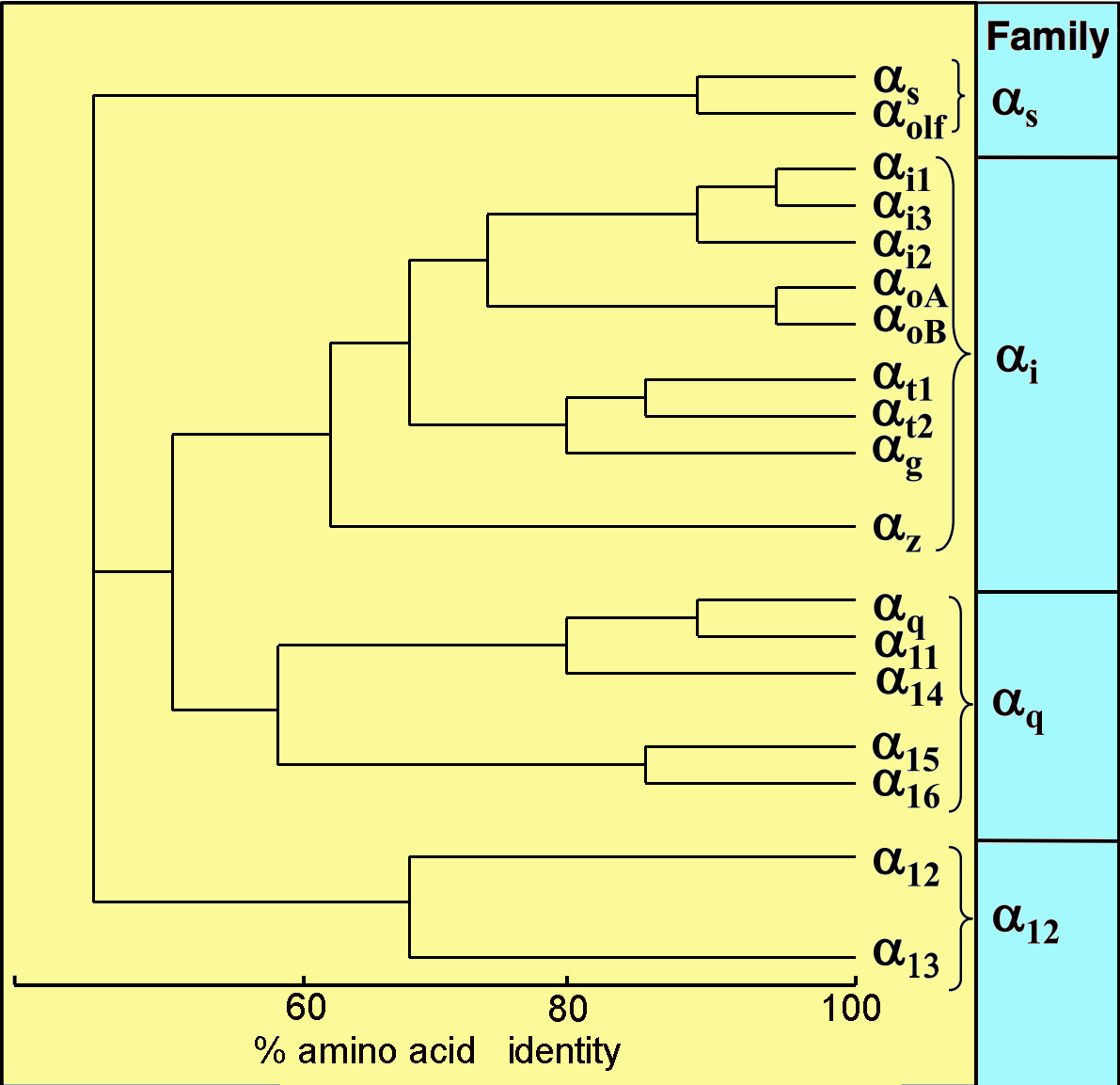 Sequence relationship among the 18 human G-alpha proteins. Modified after Syrovatkina et al. 2016.